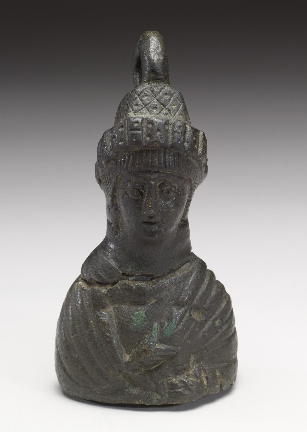 Steelyard weights shaped like the bust of an empress were common in the early Byzantine period.